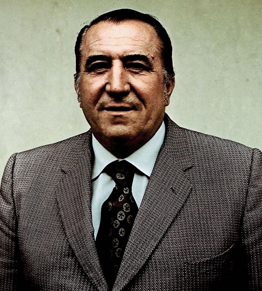 Czechoslovakian football manager Čestmír Vycpálek with Juventus F.C., circa 1973.